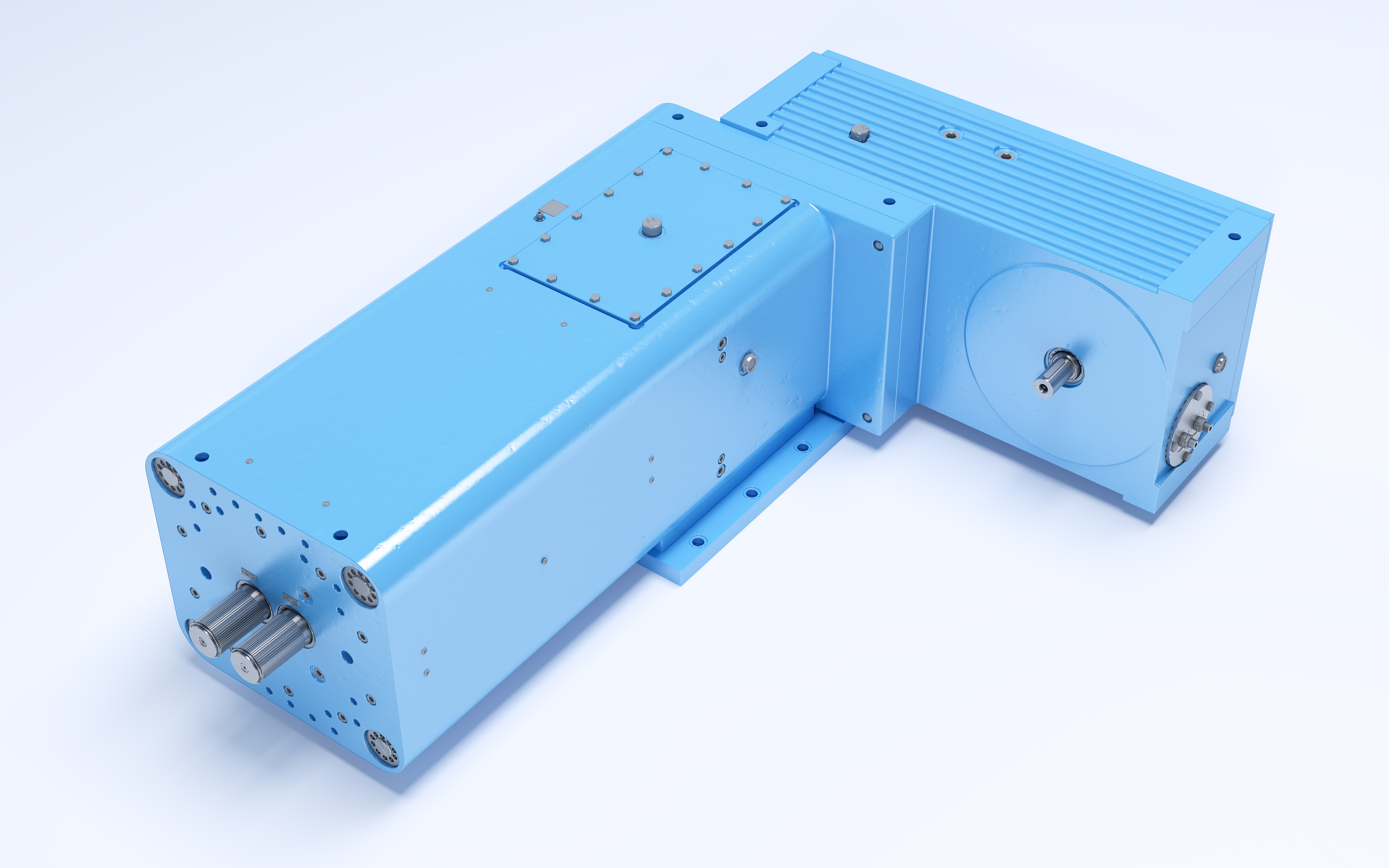 EISENBEISS counter-rotating twin screw extruder gearbox